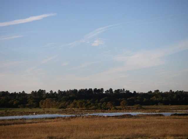 Dingle marsh and Dunwich Forest This shot shows the marsh after being inundated by salt water due to a breach of the shingle bank - an increasingly common event.